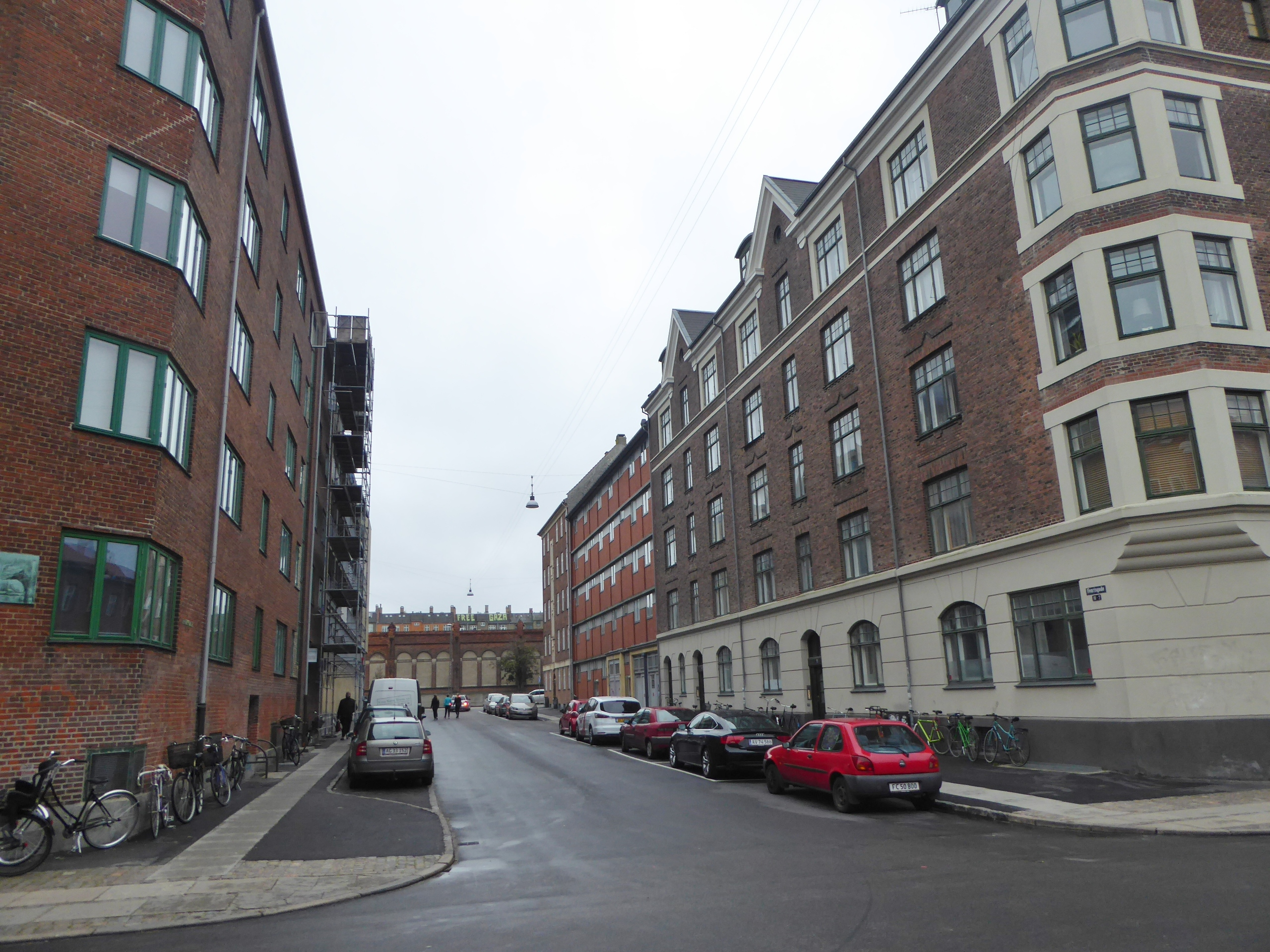 The street Fenrisgade in Nørrebro in Copenhagen.